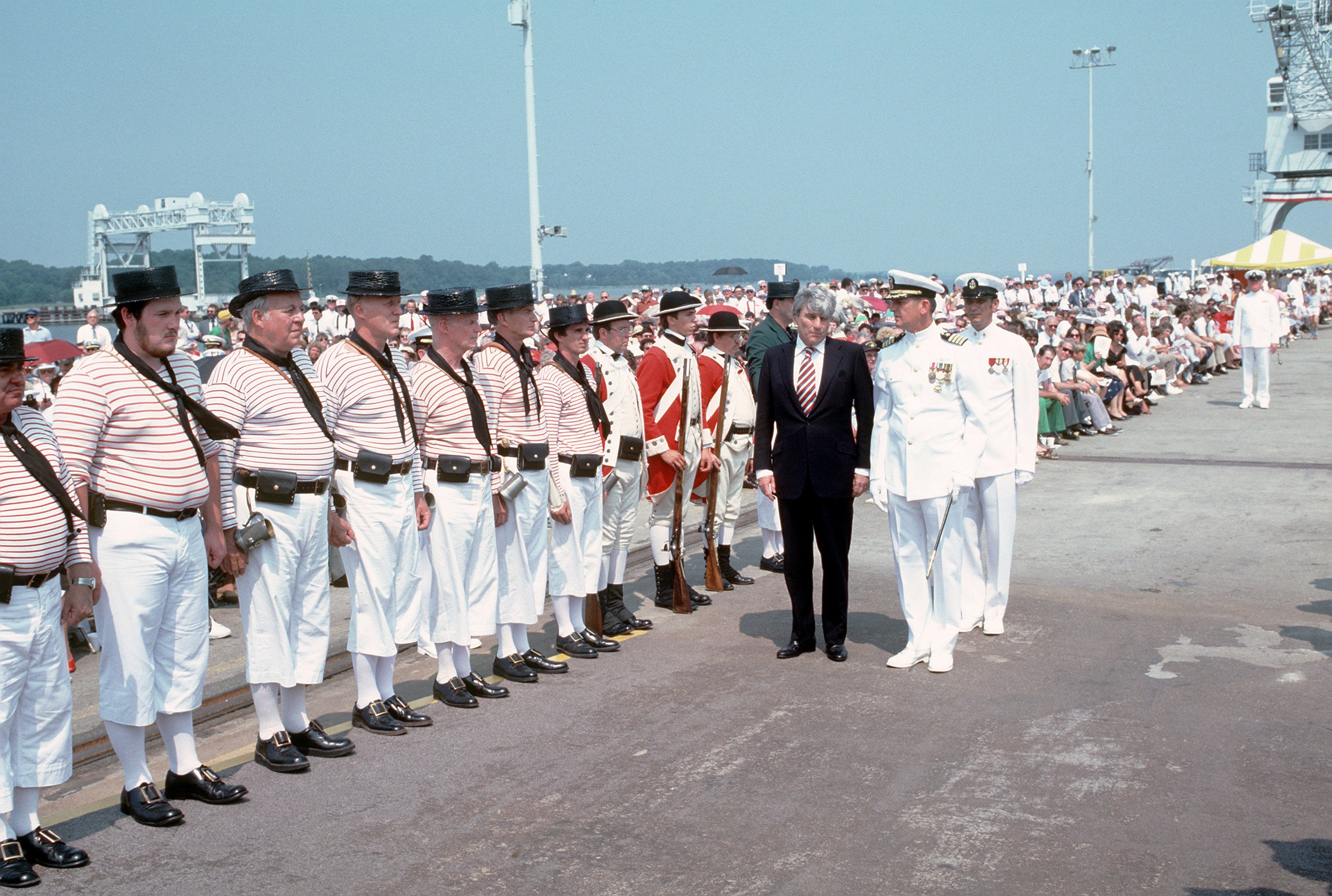 Senator John Warner, R-Virginia, is accompanied by Captain Carl A. Anderson, Commanding Officer of the Aegis guided missile cruiser USS YORKTOWN (CG 48), as they inspect a group of men wearing the uniform of the Colonial Navy of Massachusetts during the commissioning ceremony for the YORKTOWN at Naval Weapons Station Yorktown.